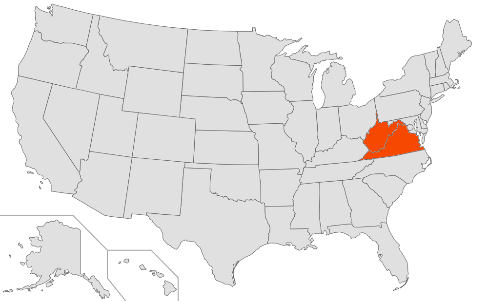 A map of the United States depicting the Virginias; West Virginia and Virginia.